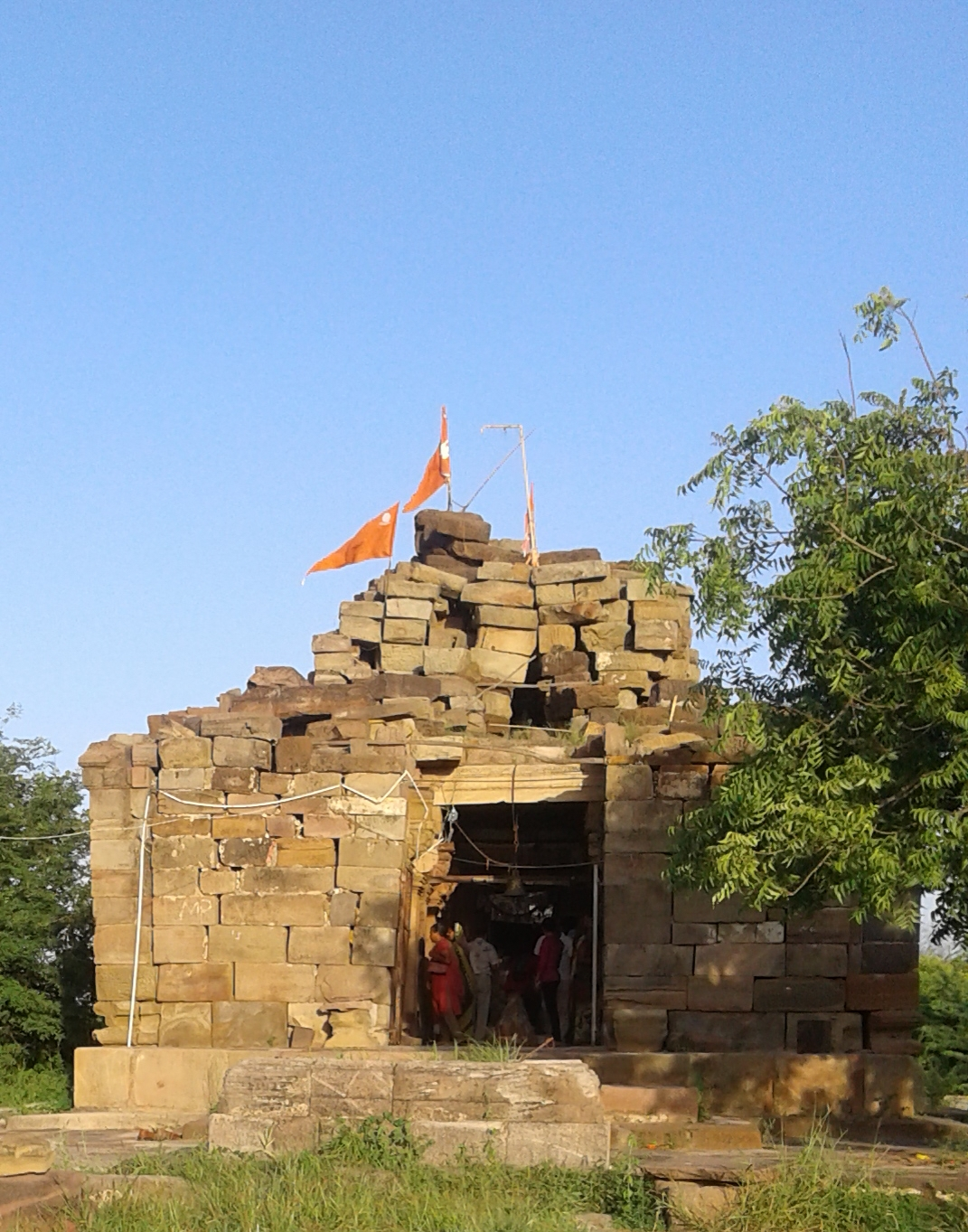 Ruins of Punvareshwar Mahadev temple at Manjal, Kutch, Gujarat